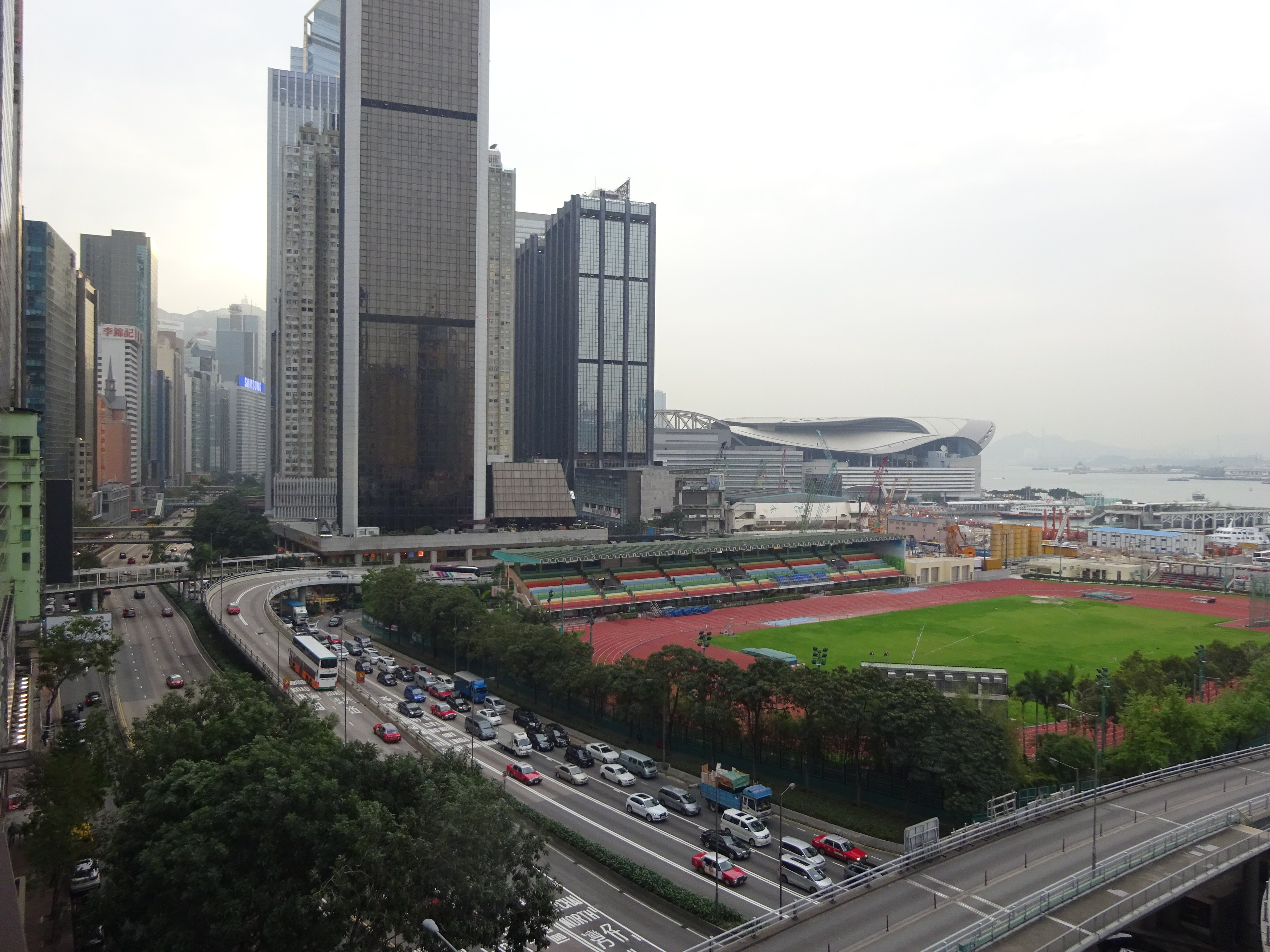 HK Wan Chai 尚匯 The Gloucester balcony view Wan Chai North flyover bridge busy peak hours March 2016